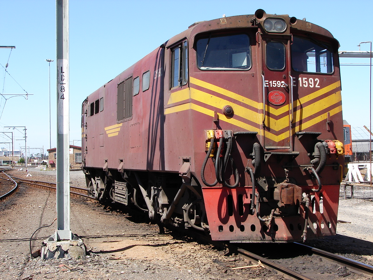 SAR Class 6E1 Series 5 E1592 Location: Bellville, Cape Town